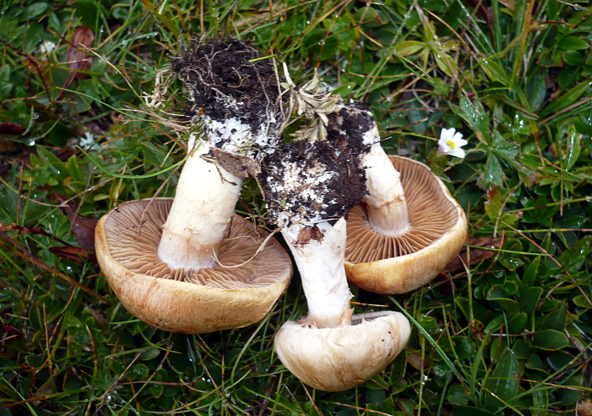 Cortinarius caninus (Fr.) Fr. Image location: Hochwand, Tragöß, Bezirk Bruck an der Mur, Styria, Austria [admin – Sat Aug 14 02:01:10 +0000 2010]: Changed location name from ‘Hochwand,Tragöß,Bezirk Bruck an der Mur,Styria,Austria’ to ‘Hochwand, Tragöß, Bezirk Bruck an der Mur, Styria, Austria’ Recognized by sight Used references Based on microscopic features Based on chemical features For more information about this, see the observation page at Mushroom Observer.